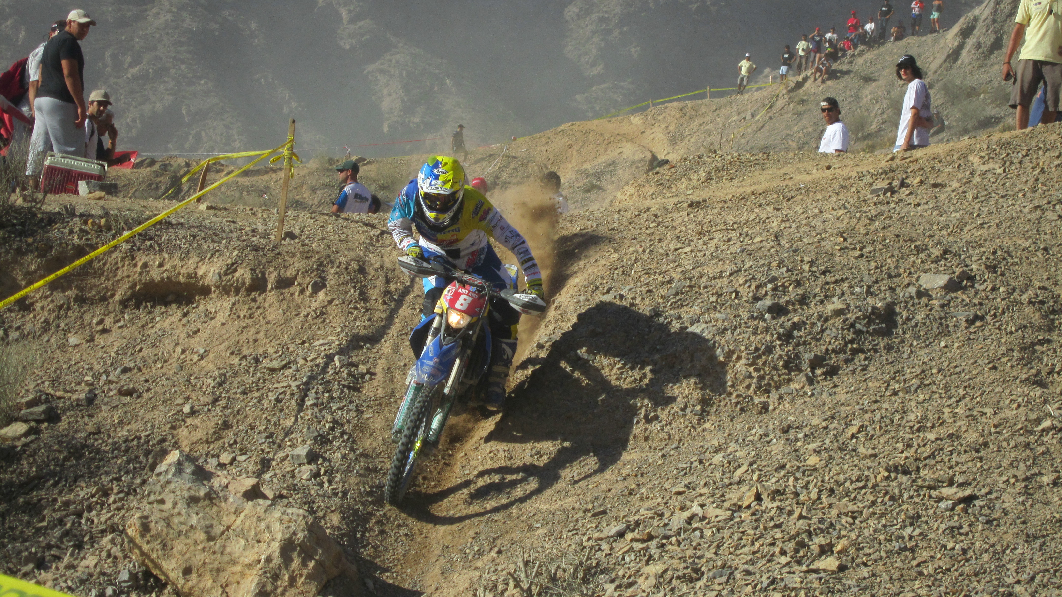 Hans Vogels (Netherlands) on the "Extreme Test" on April 1st, 2012 in San Juan, Argentina